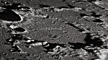 Goldschmidt lunar crater as seen from Earth with satellite craters labeled